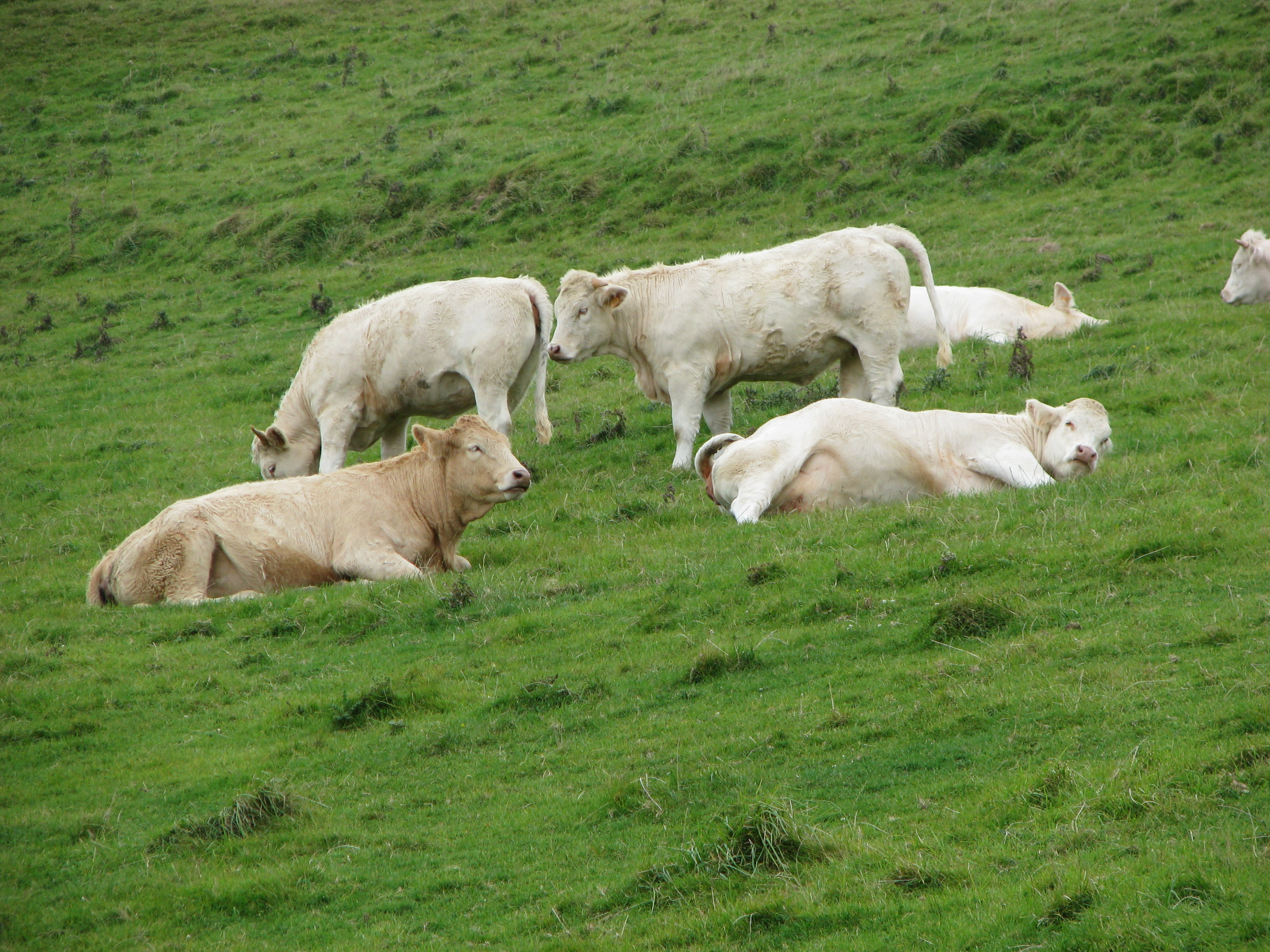 A group of Charolais cows, France.